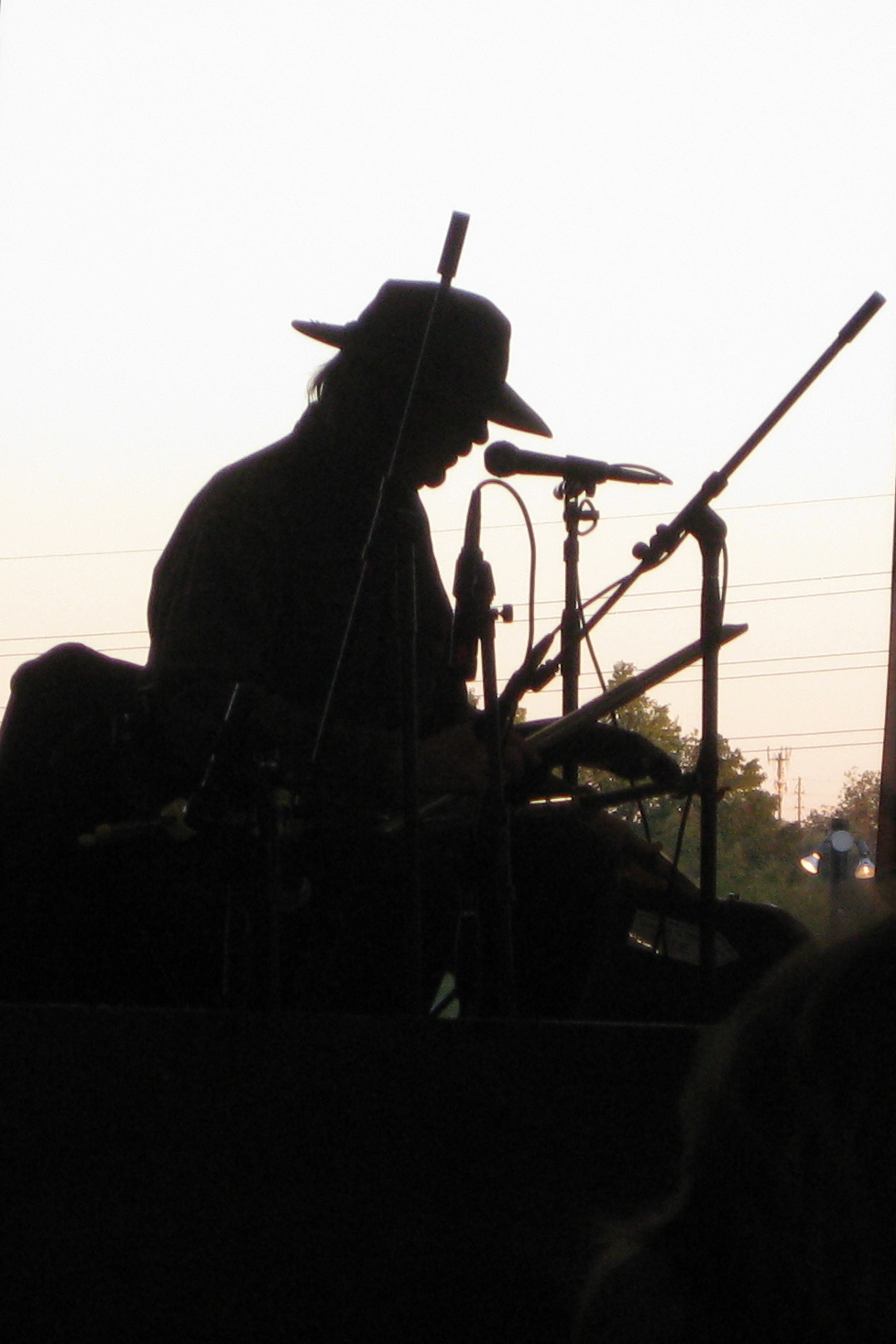 Photo by Jean Smootz, who has released it to the public domain. Taken at the Austin Celtic Festival (public performance), on November 6, 2010.